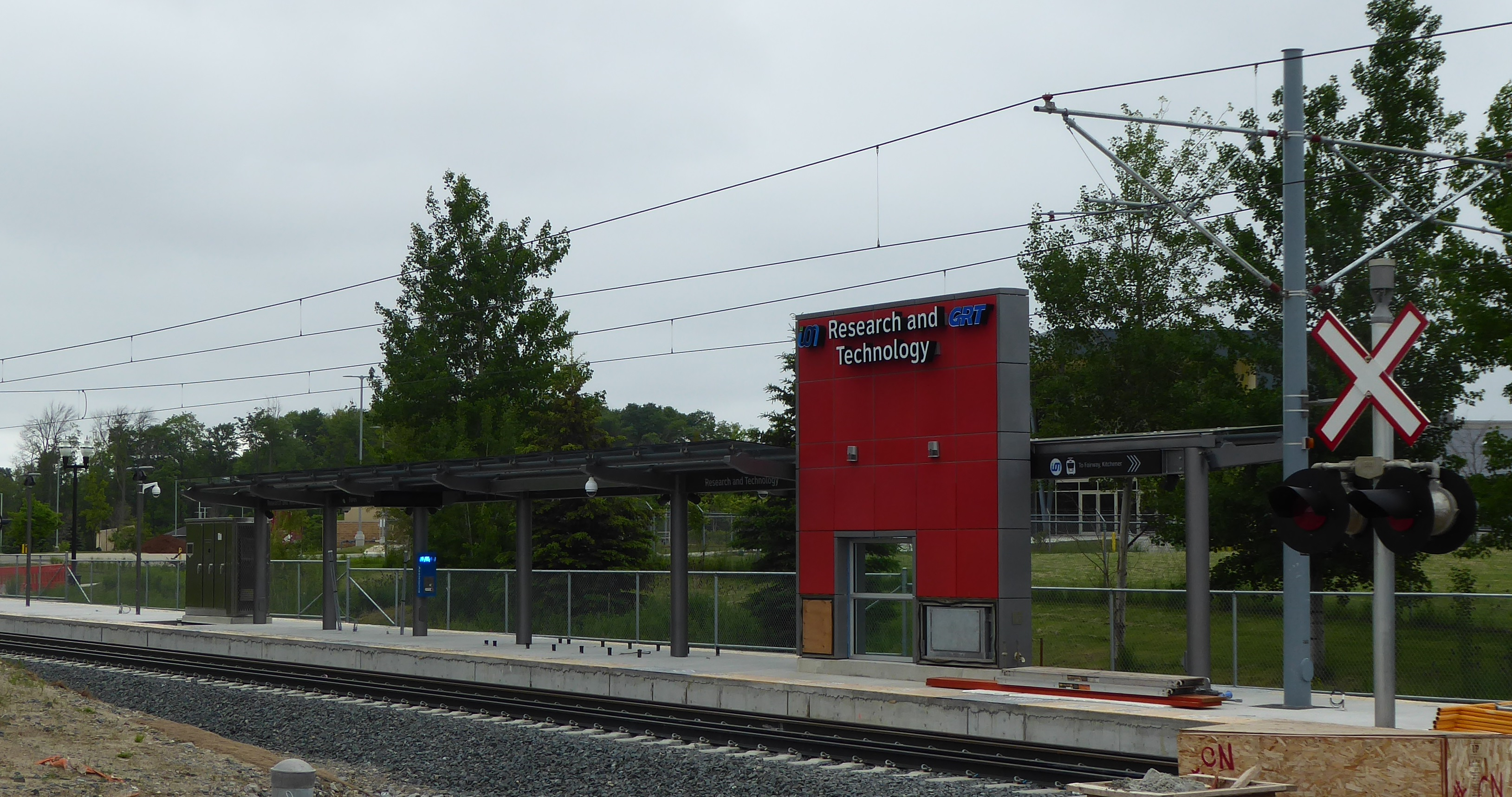 Research and Technology Station of the Ion rapid transit system, photographed under construction June 2017